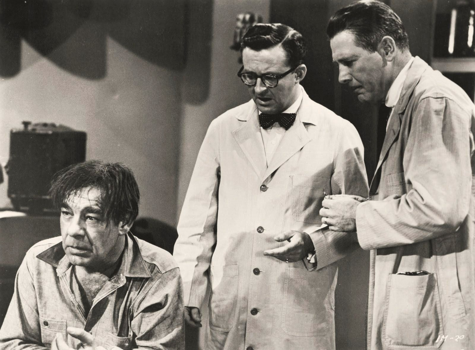 L. to R. : Lon Chaney, Jr., Joe Flynn & Robert Shayne in Indestructible Man - publicity still (original image damaged, modified : see source)